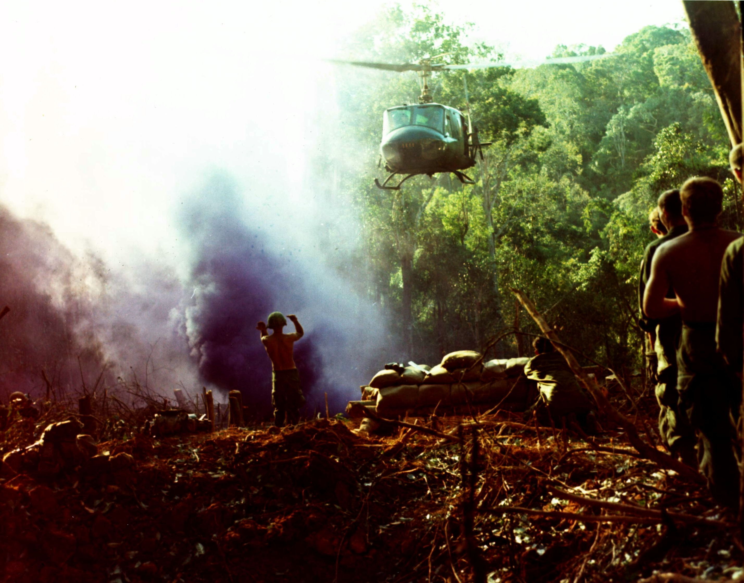 A U.S. Army Bell UH-1D Huey helicopter prepares for a resupply mission for Company B, 1st Battalion, 8th Infantry Regiment, 4th Infantry Division, during the operation "MacArthur" conducted 35 km southwest of Dak To, South Vietnam, between 10 and 16 December 1967.